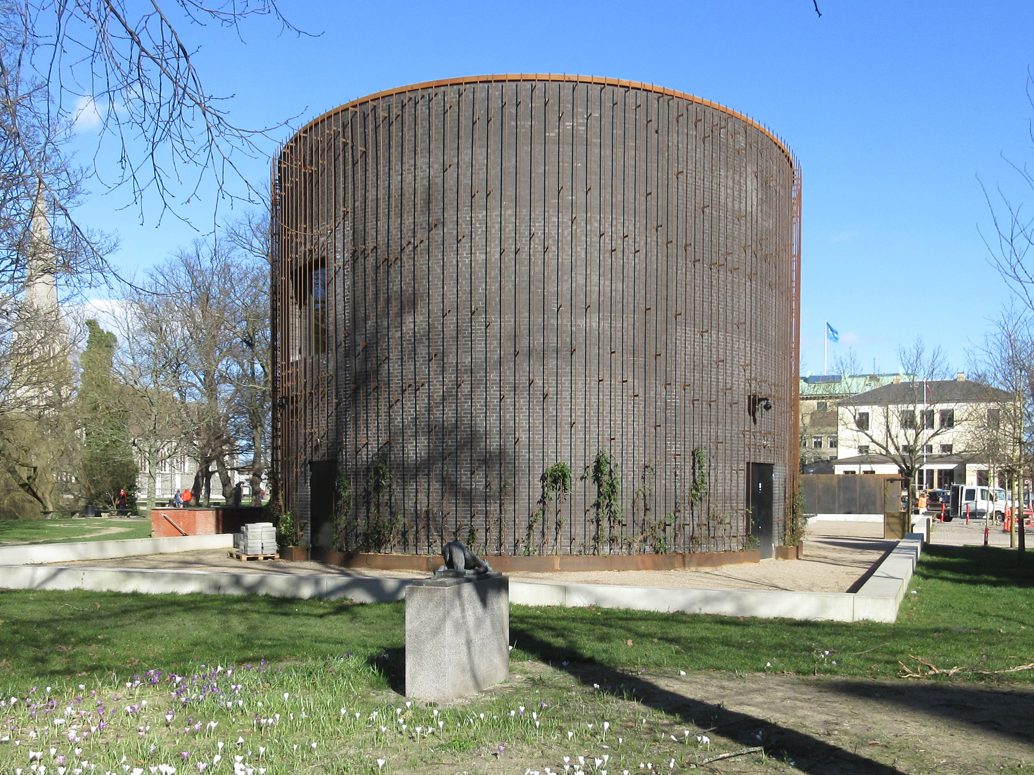 Frihedsmuseet in Copenhagen, Denmark